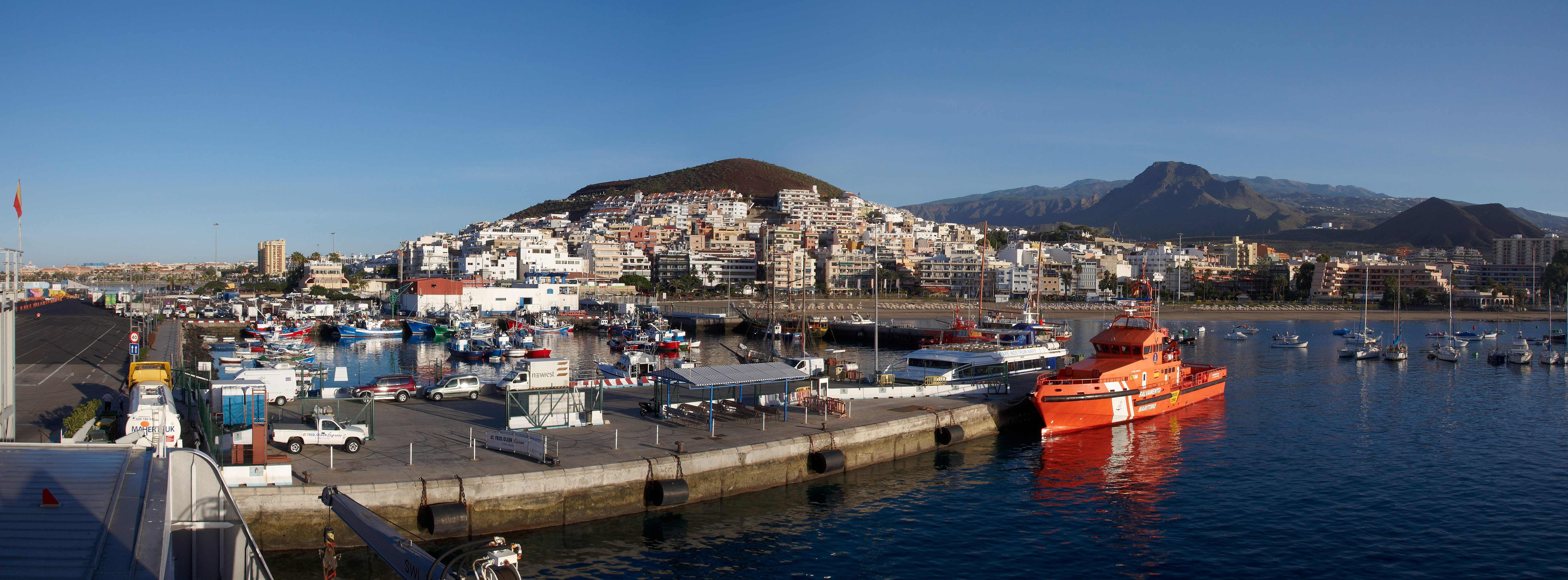 View on Los Cristianos